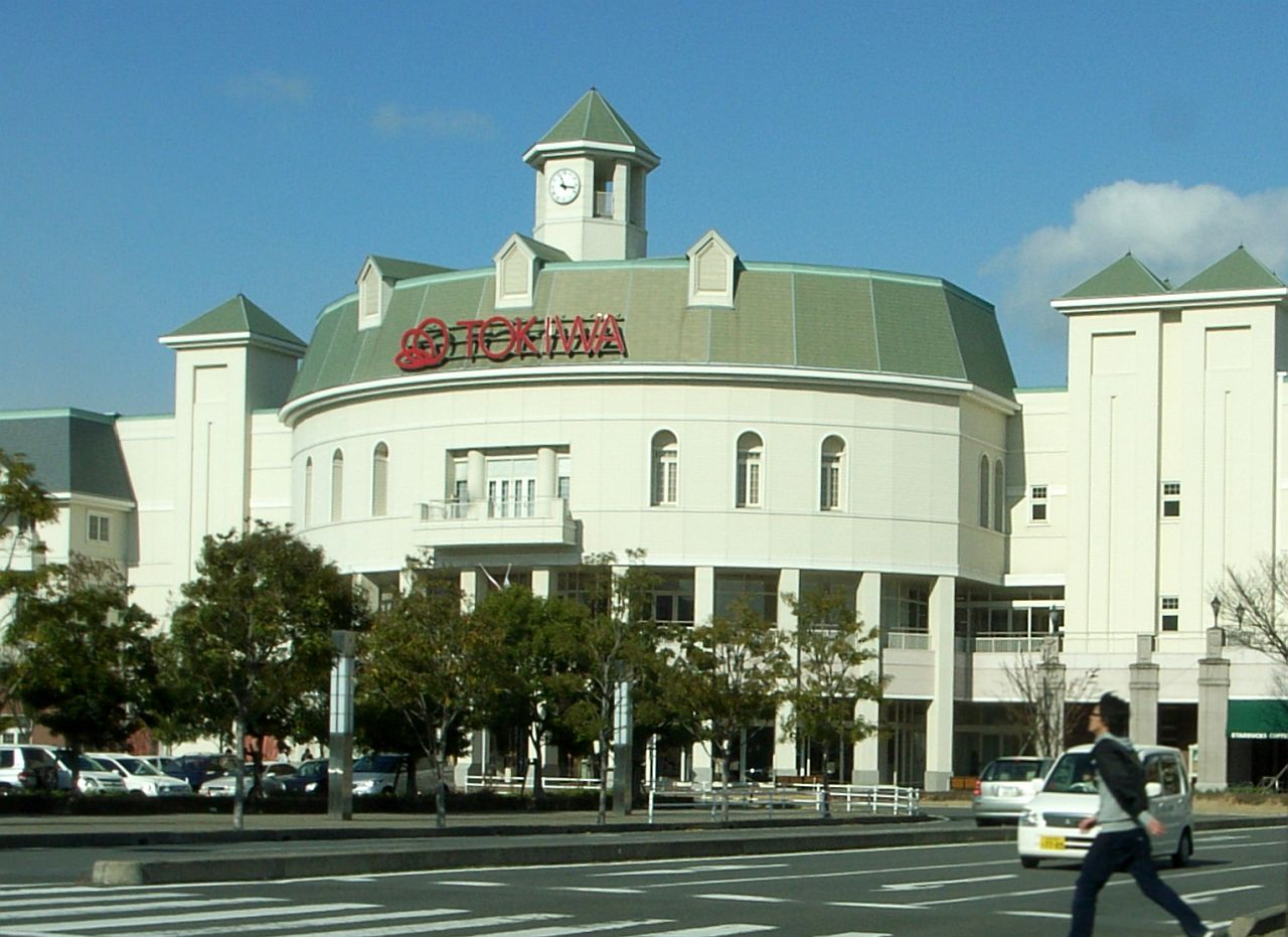 Tokiwa Department Store - Wasada store, Oita City, Oita Pref., Japan / トキハわさだ店（大分県大分市）